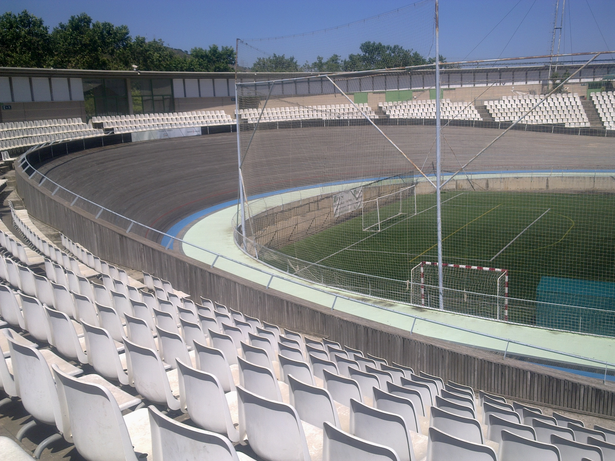 Velòdrom d'Horta, with a football field